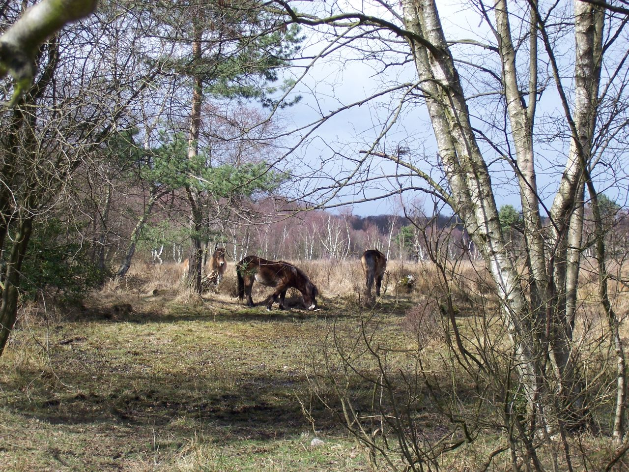 Sutton Park, heathland, wild Exmoor Ponies